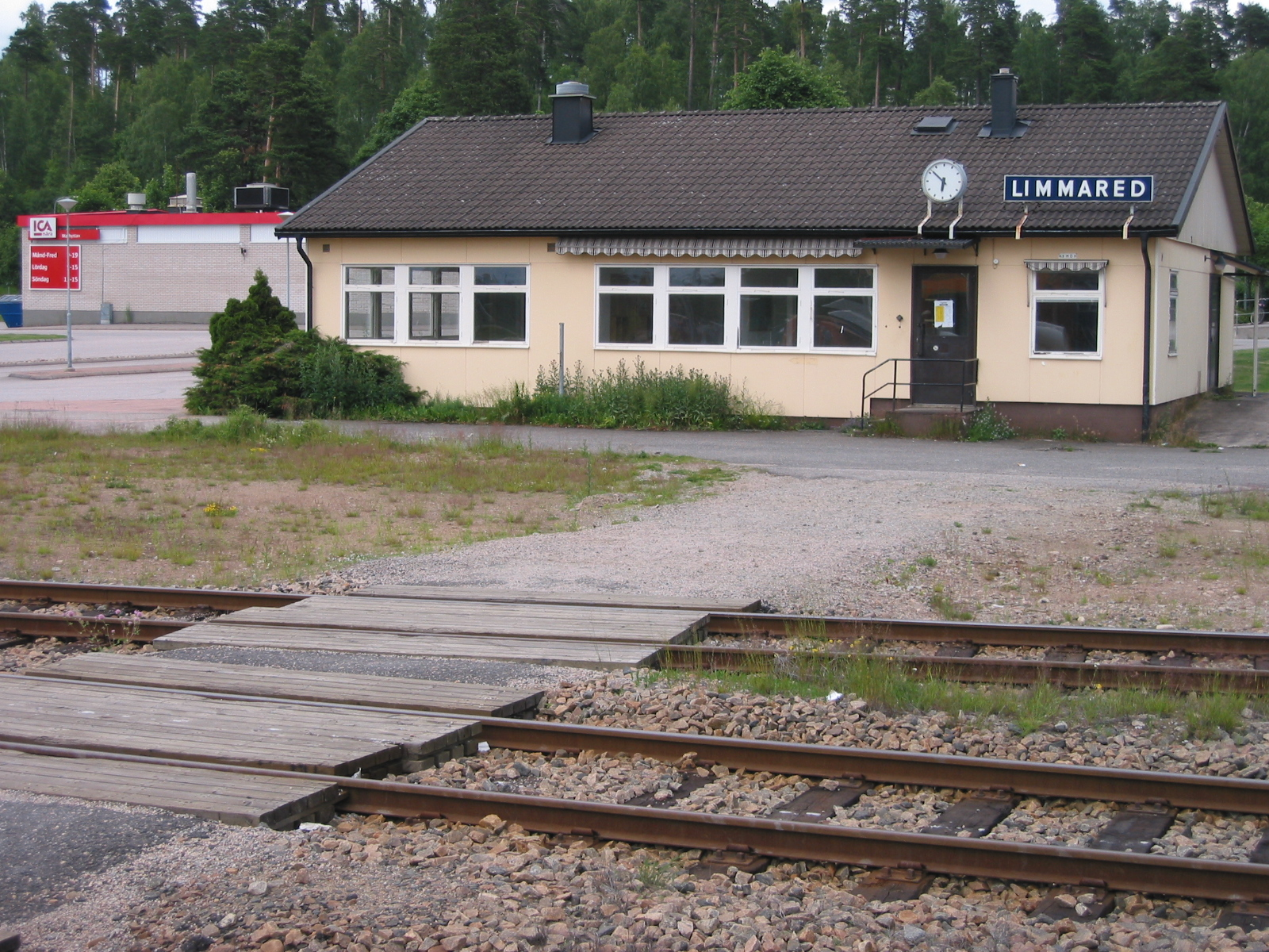 Limmared old railway station 1963-2012